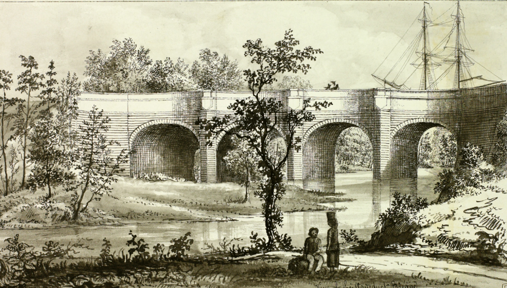 The Kelvin Aqueduct by James Hopkirk (1749 - 1838)